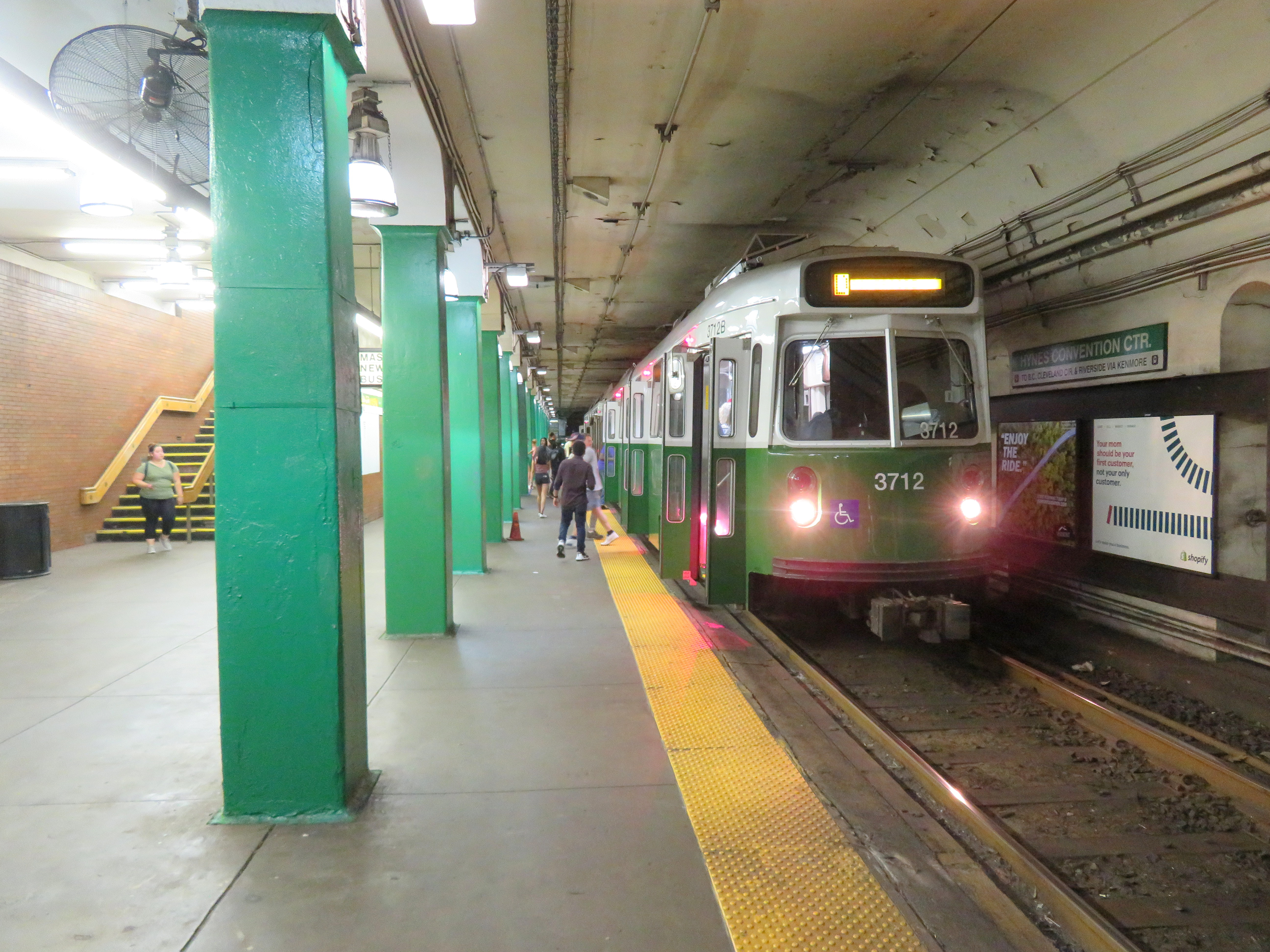 An outbound train at Hynes Convention Center station in July 2019